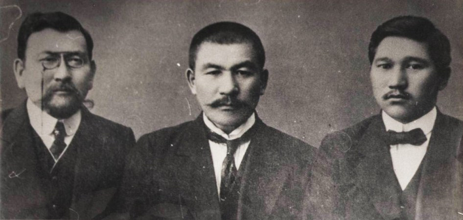 Akhmet Baitursynuly, Alikhan Bokeikhan and Mirzhakip Dulatuly in Orenburg